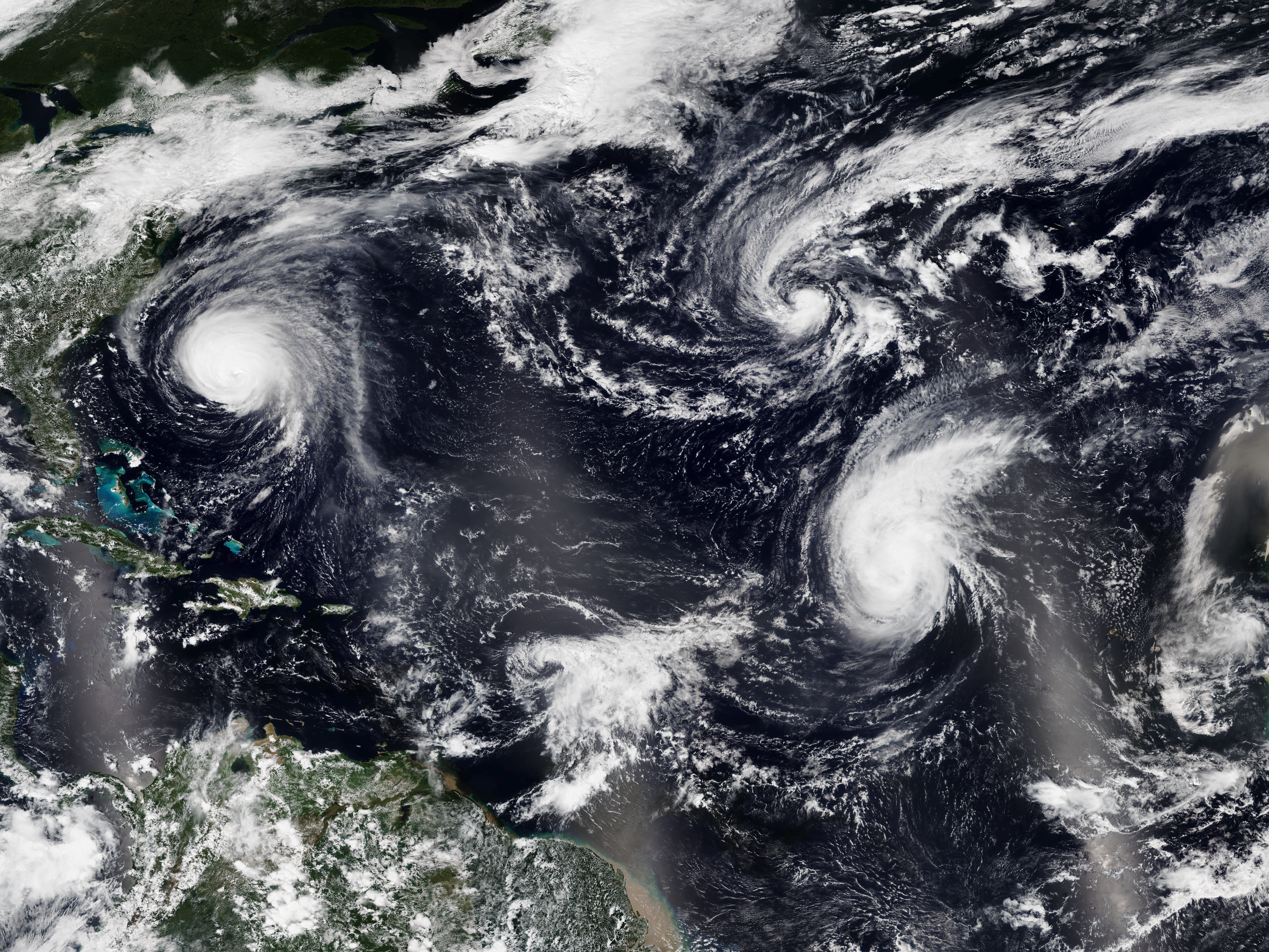 Four Atlantic named tropical cyclones were active on September 12, 2018: Florence (left), Helene (in the right), Isaac (near South America) and Joyce (middle). This was the first occurrence of four named storms active at the same time since 2008.